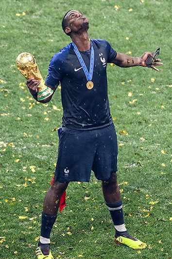 Les Bleus won the World Cup for the second time after surviving a thrilling game in Moscow.